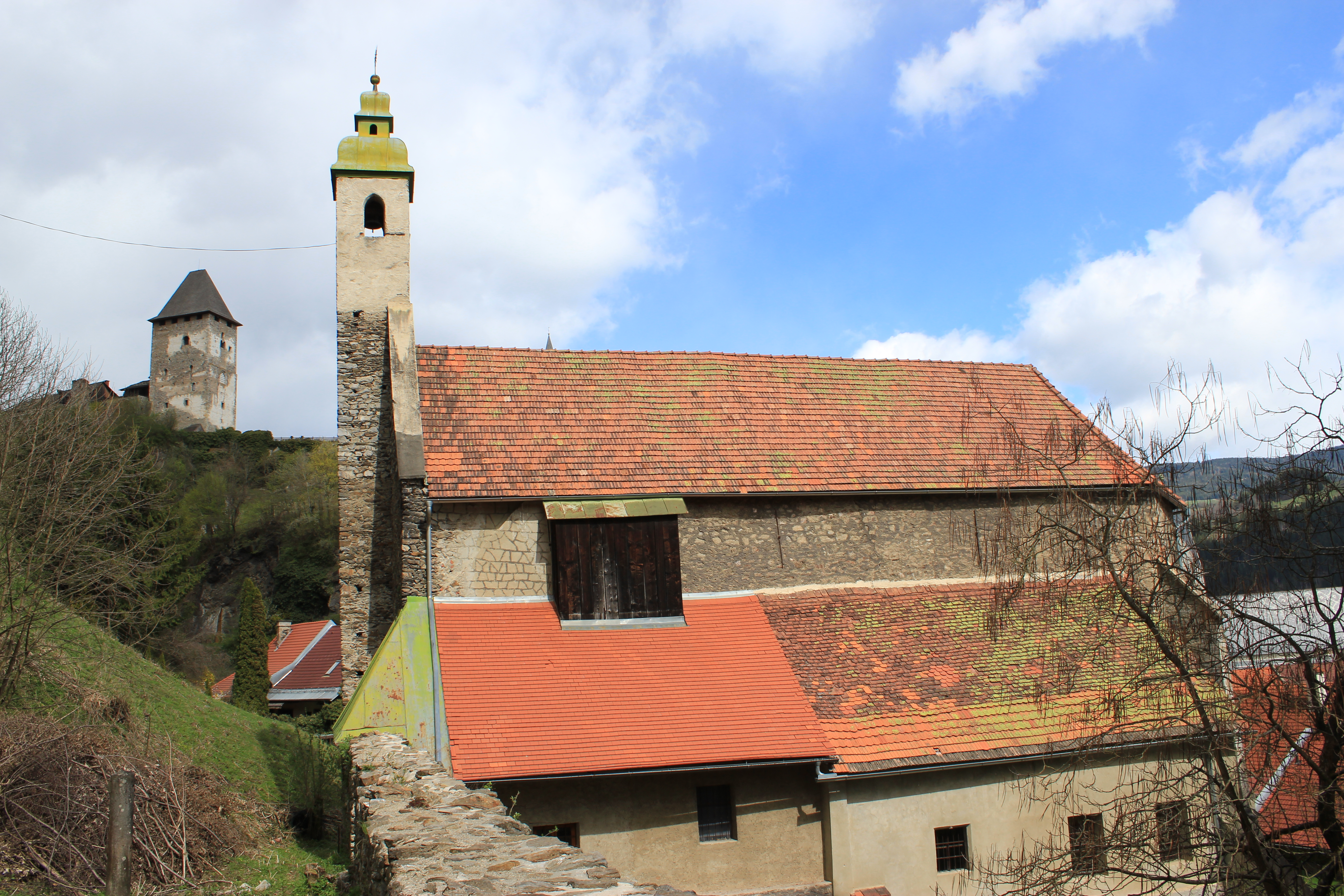 Heiligblutkirche in Friesach